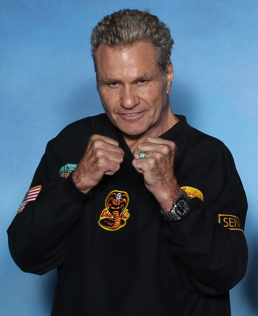 Martin Kove at GalaxyCon Richmond in 2019